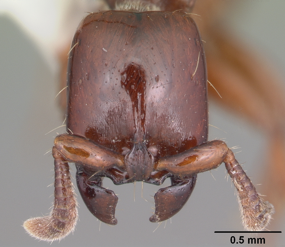 Head view of ant Acanthostichus kirbyi specimen casent0006101.